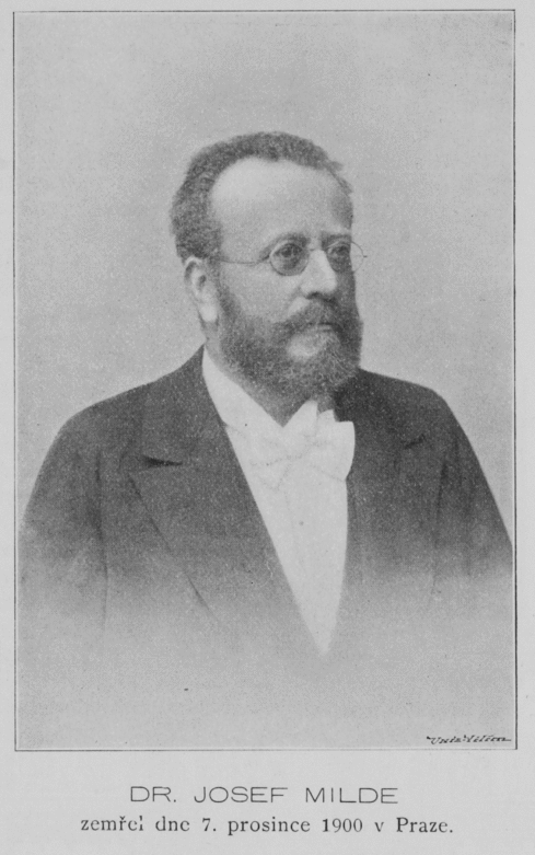 Portrait of Josef Milde (1839-1900), Czech lawyer and politician. Photo is watermarked by Unie-Vilím, printworks managed by Jan Vilím (1856-1923).